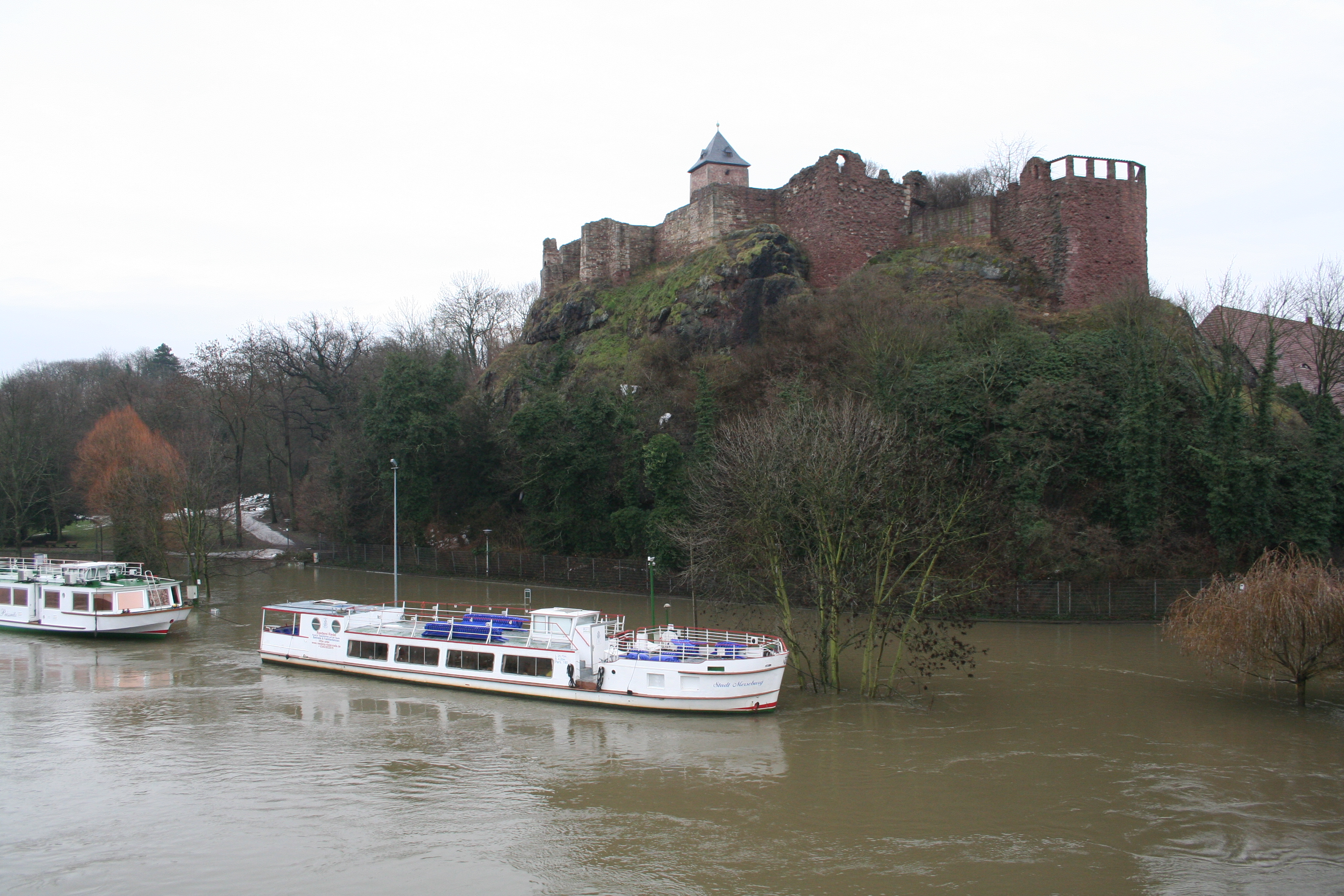 Salle flood in Halle, January 2011